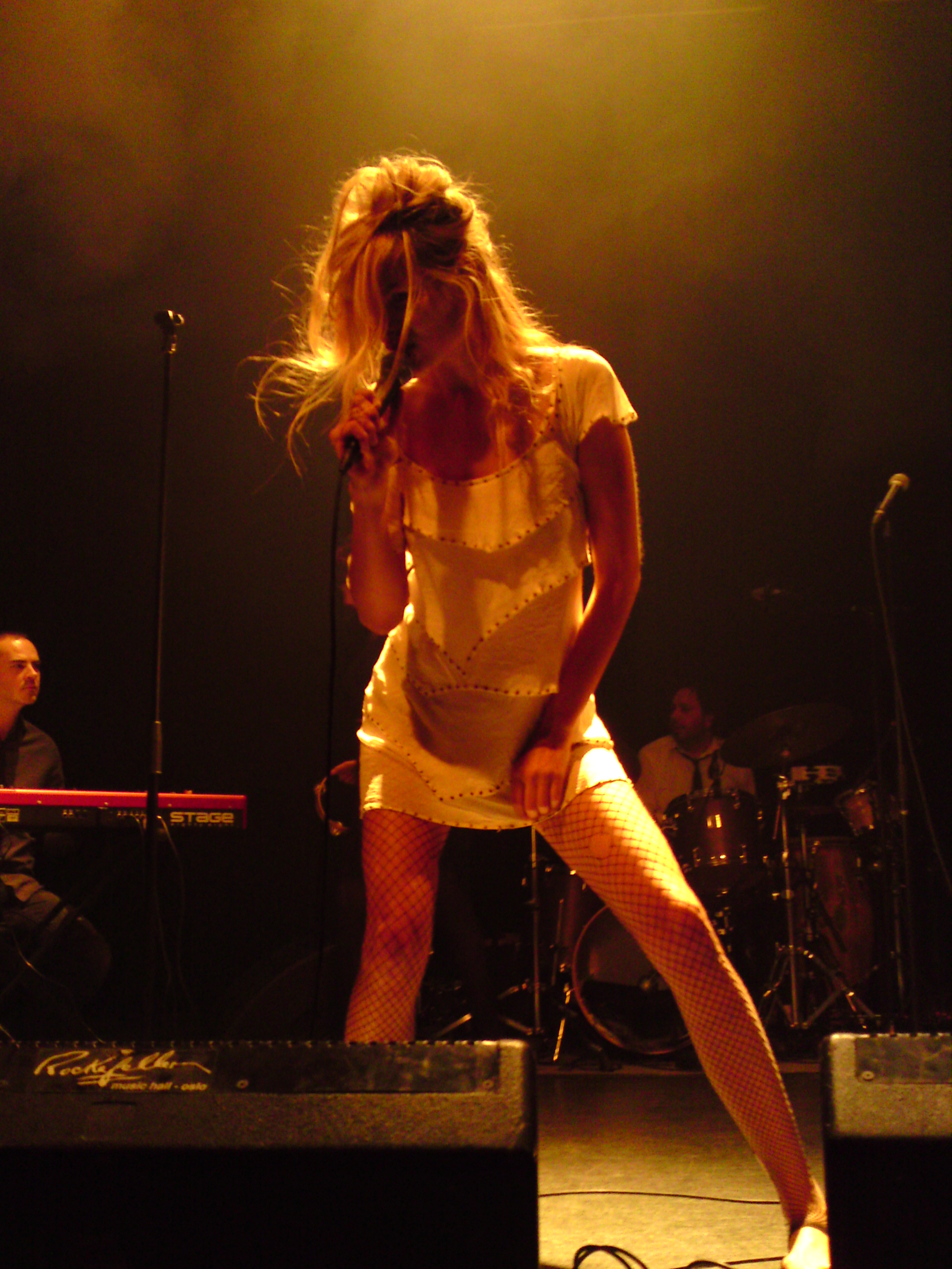 Nouvelle Vague live at Rockefeller, Oslo, Norway. October 10th 2009. Nadeah Miranda pictured.